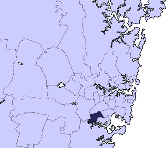 Locator Map Hurstville lga sydney.png Based on Image:Ku-ring-gai sydney.png by User:Randwicked.